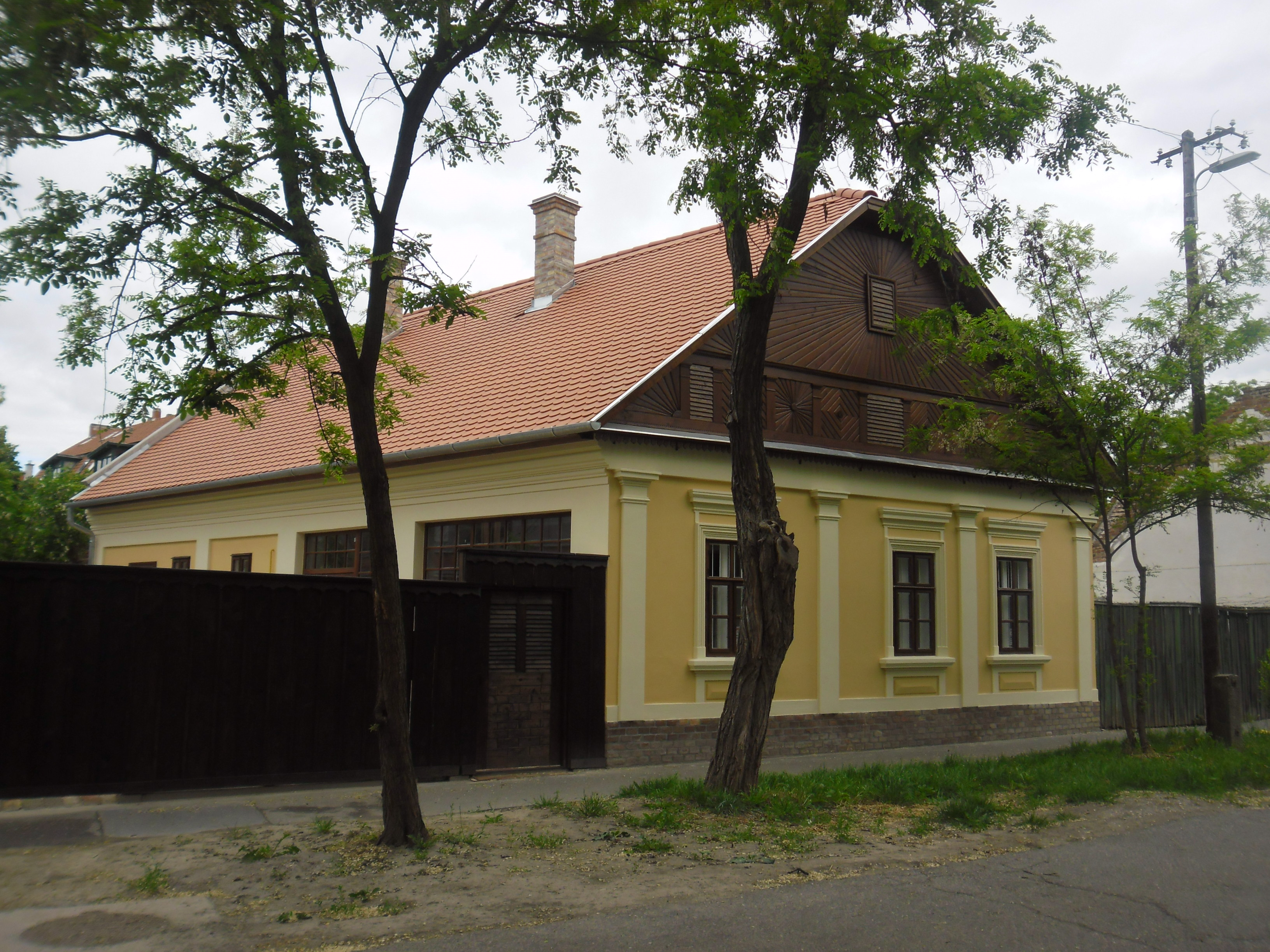 Kakuszy-house in Szeged This is a photo of a monument in Hungary, Identifier: 3431